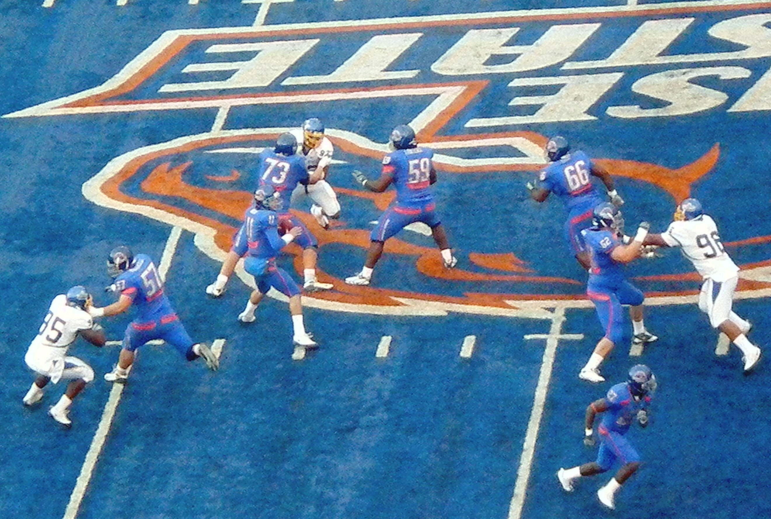 Boise State offensive line forming a pocket around Kellen Moore during a game vs San Jose State on October 31, 2009 in Boise, ID.